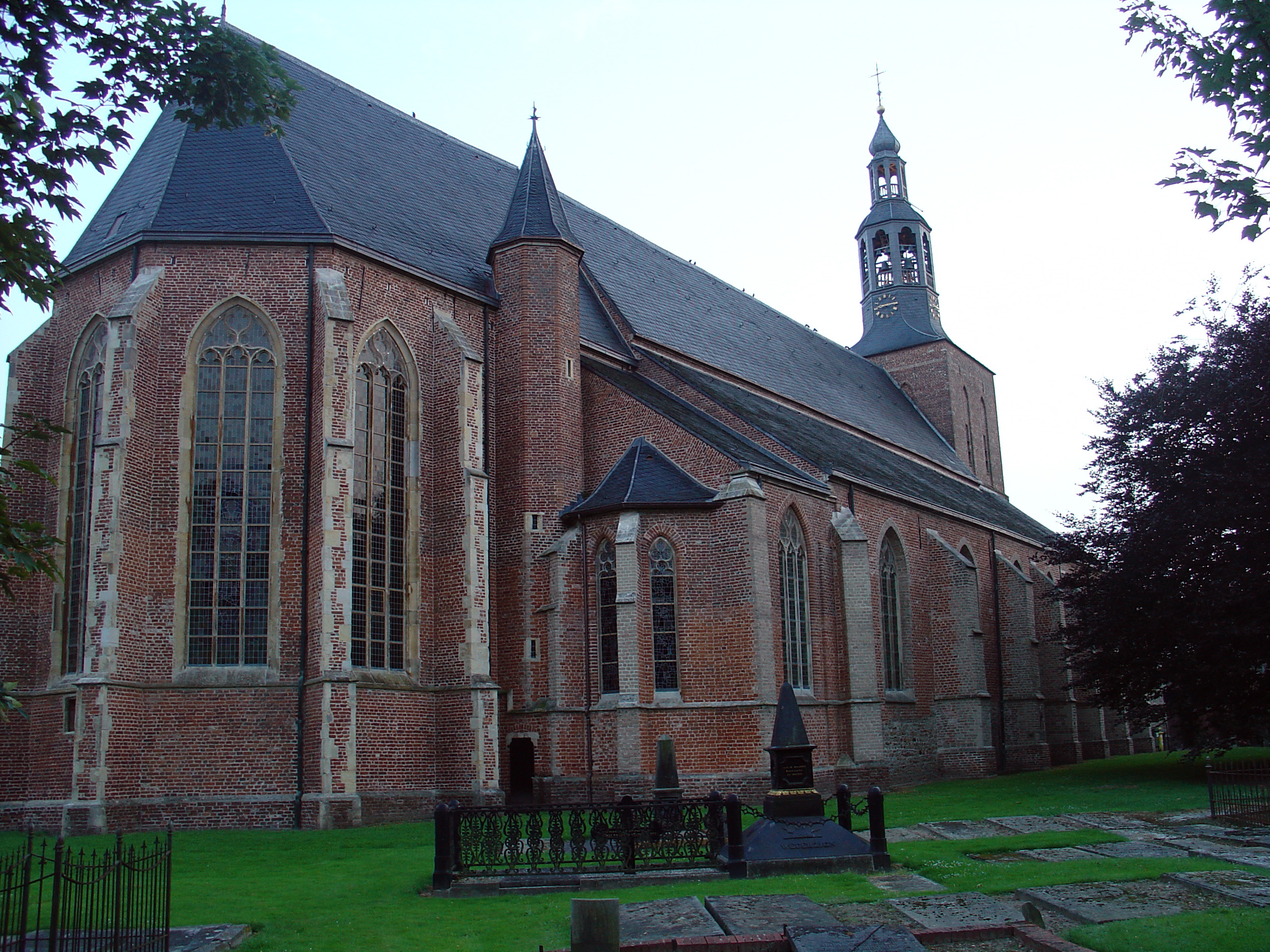 Oude Calixtuskerk (Old Saint Calixtus Church) with churchyard in Groenlo, the Netherlands